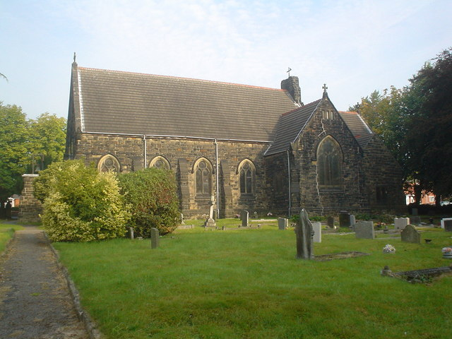 Holy Trinity Church, Rhostyllen, near to Rhostyllen, Wrexham/Wrecsam, Great Britain.